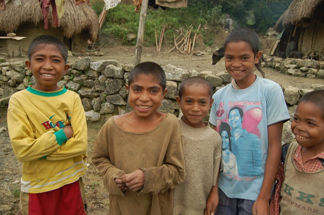 Warm Smiles from the Cold Mountains of Maliana. Boys in Timor-Leste